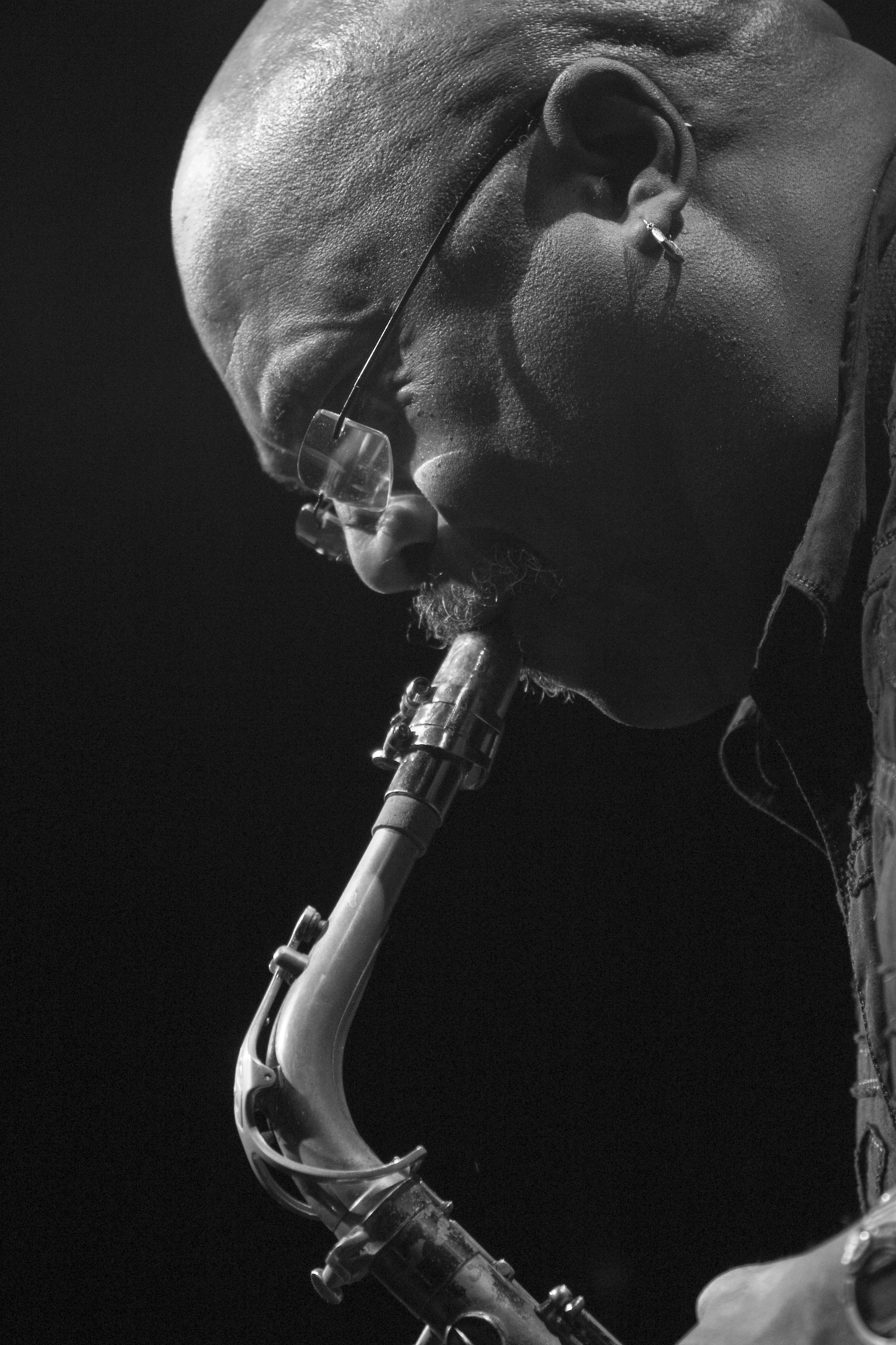 Oliver Lake live in Villa Celimontana Jazz Festival 2006 in Rome